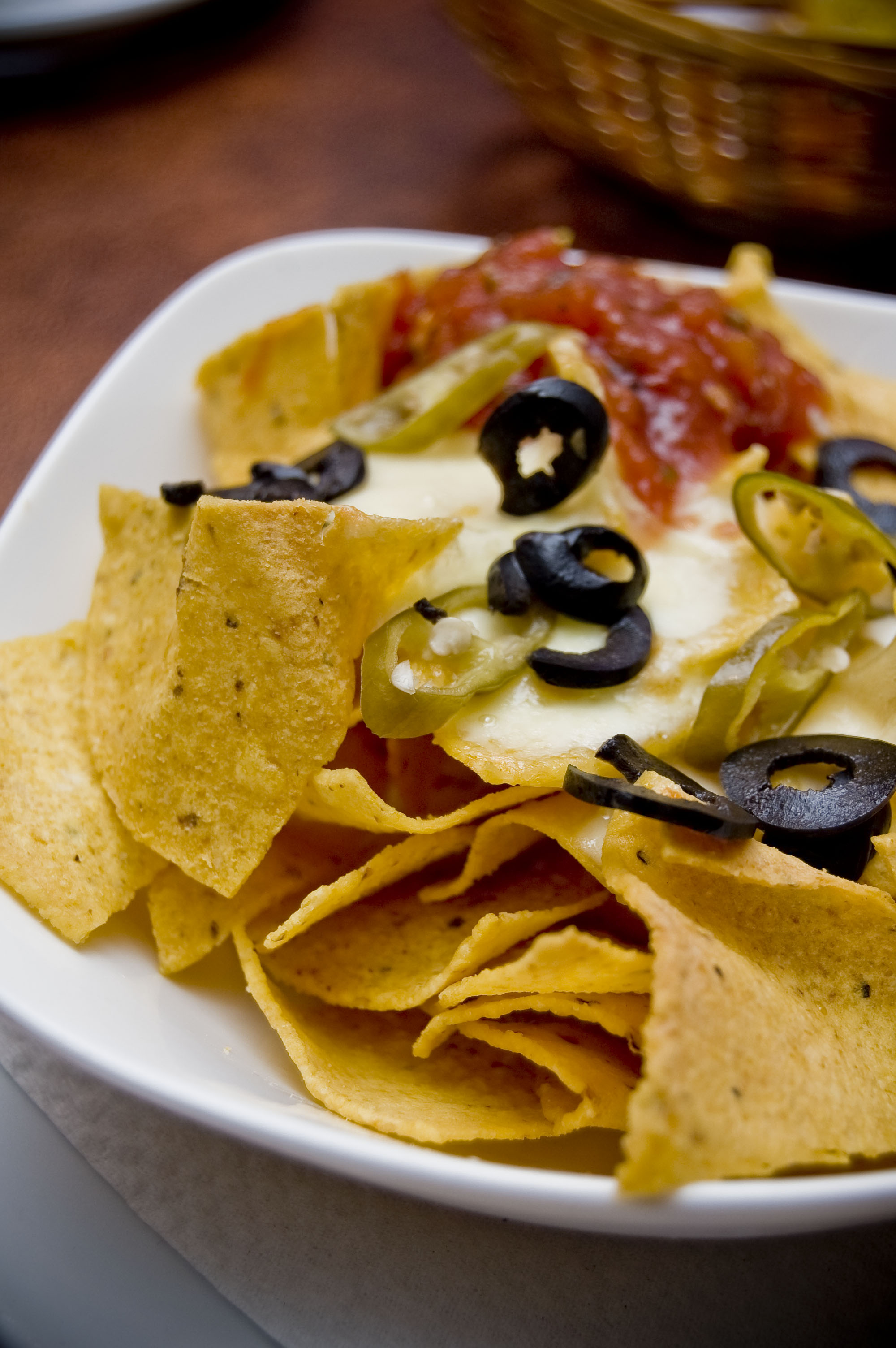 A plate of Nachos—tortilla chips topped with melted cheese, sliced chile peppers, sliced black olives, and chili sauce—as served by the Logenhaus Roast & Grill in the UEP Subang Jaya township of Selangor, Malaysia.